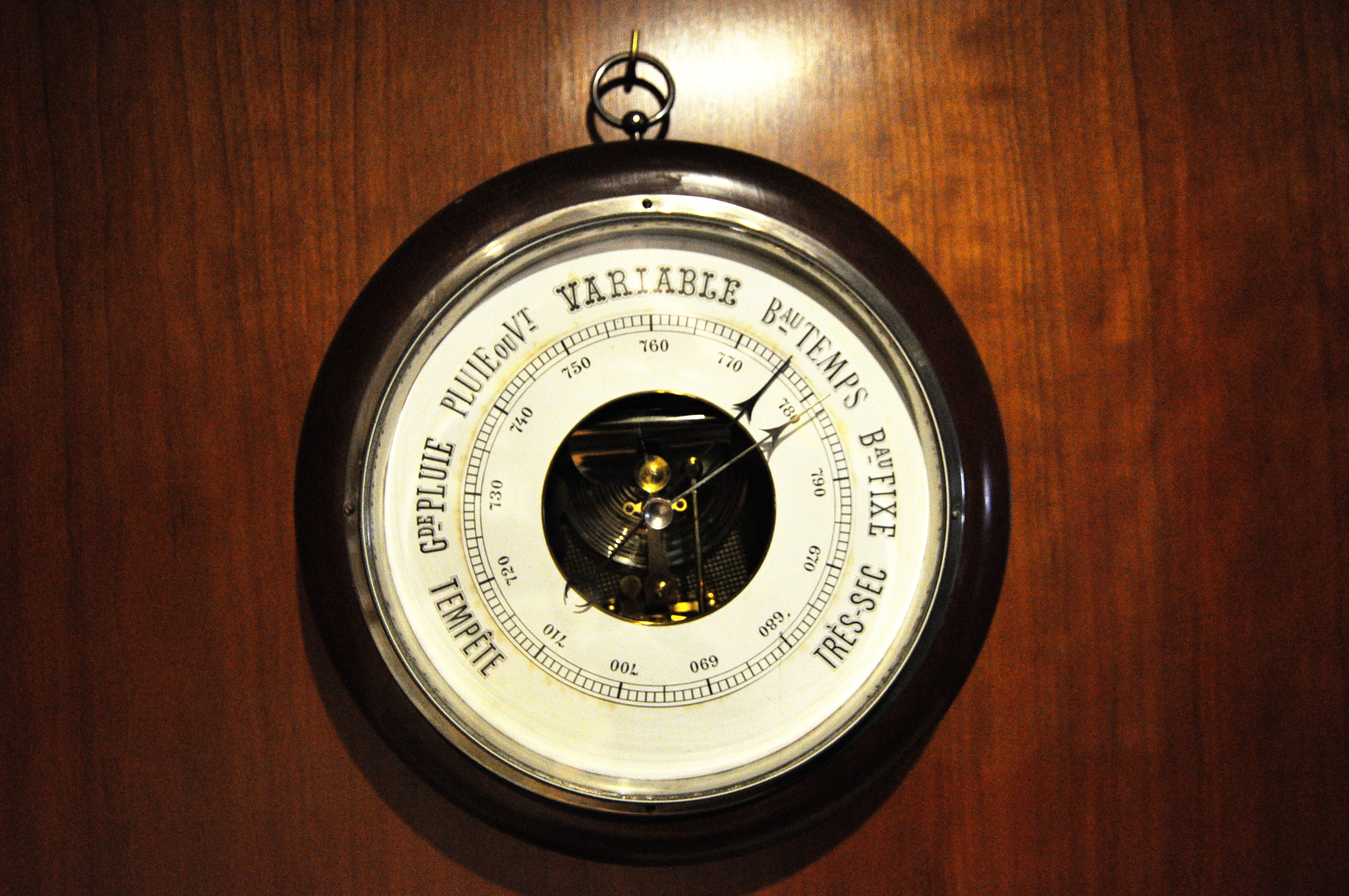 Barometer from 1890s, inside a boat.